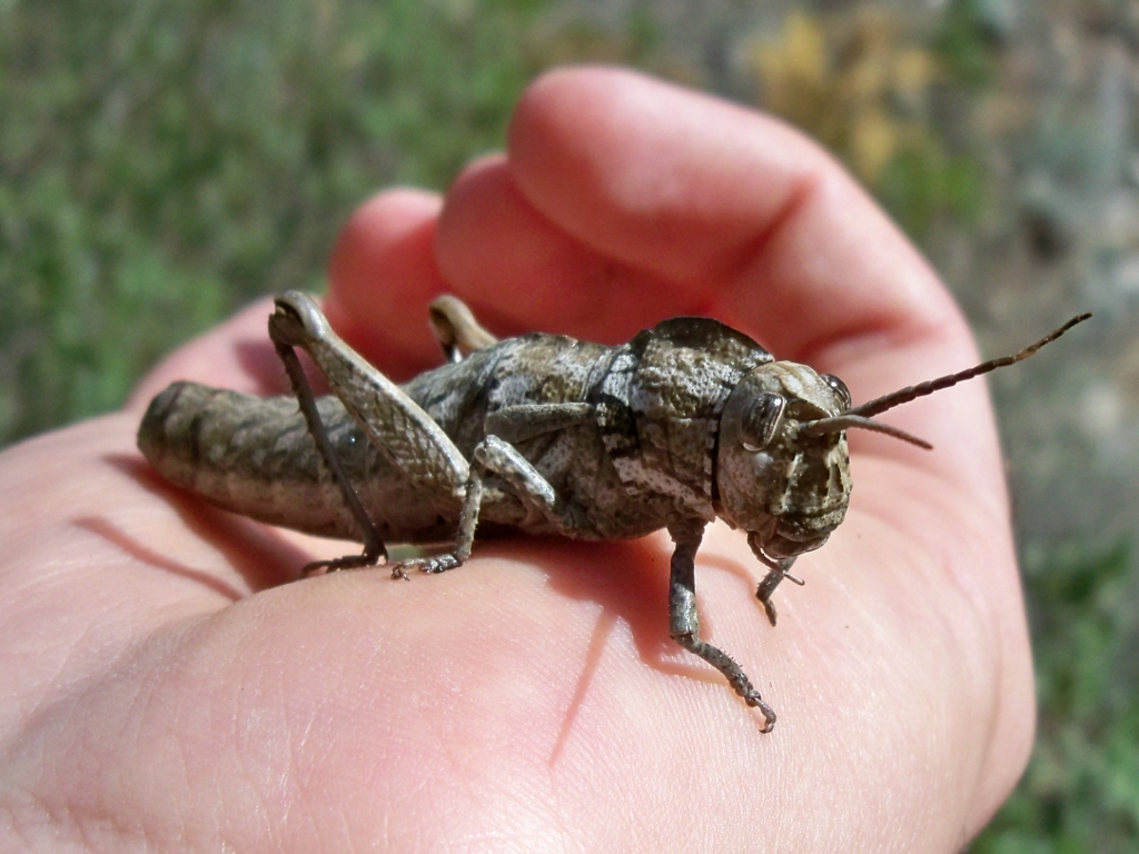 Female grasshopper Eumigus rubioi.